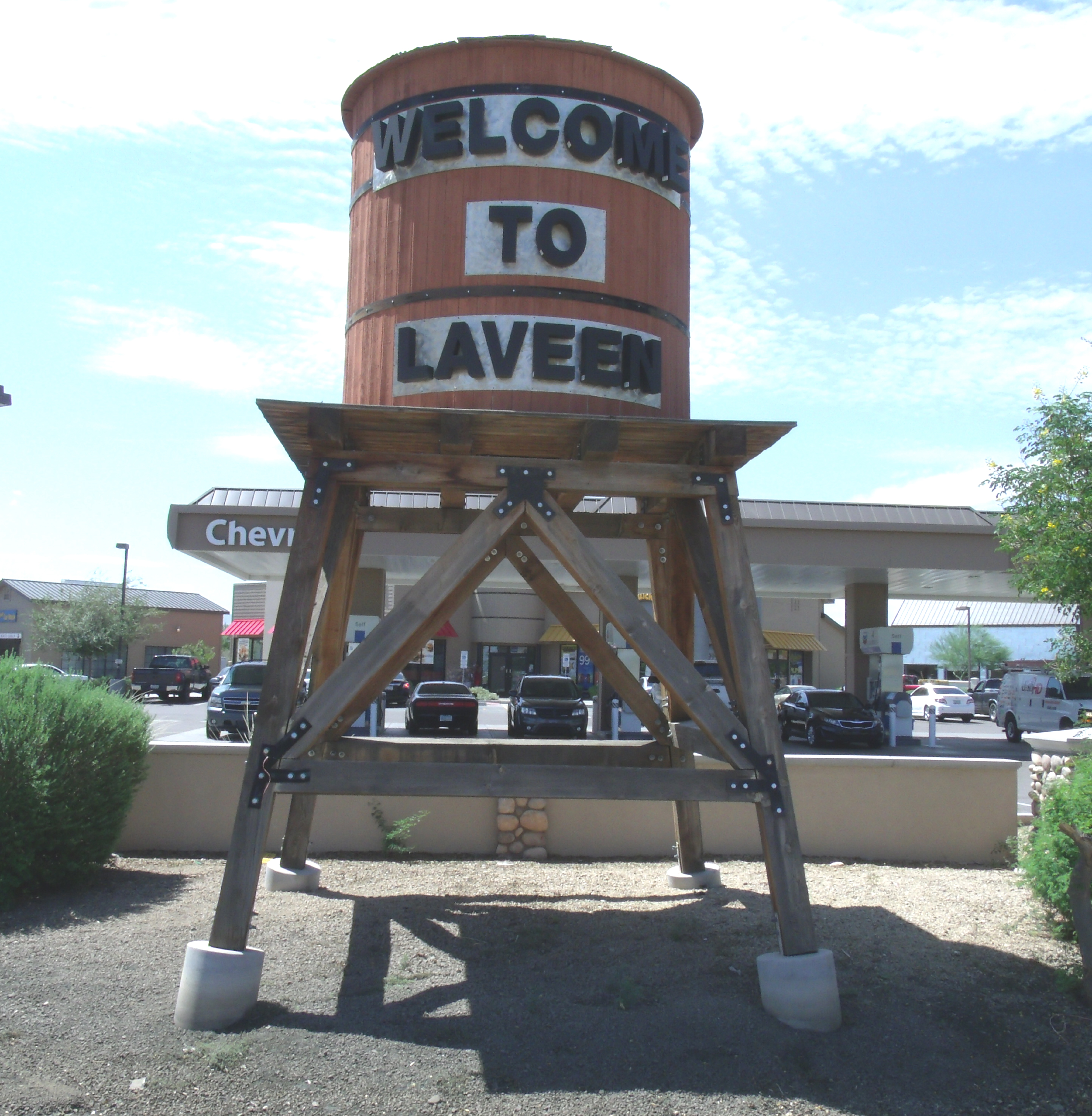 Laveen Water Tower. This is the entrance to the Village of Laveen located within the city of Phoenix. The Water Tower is located in the southwest corner of 51st. and Southern Aves.